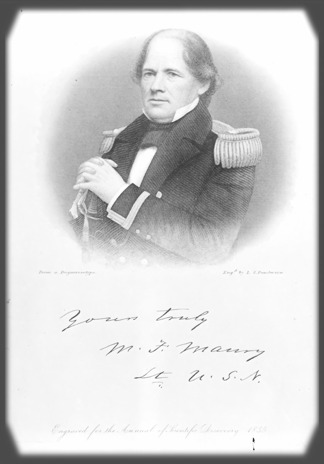 Matthew Fontaine Maury, USN, after going to International Conference of Nations in Brussels, Belgium as United States representative on Meteorology at Sea.